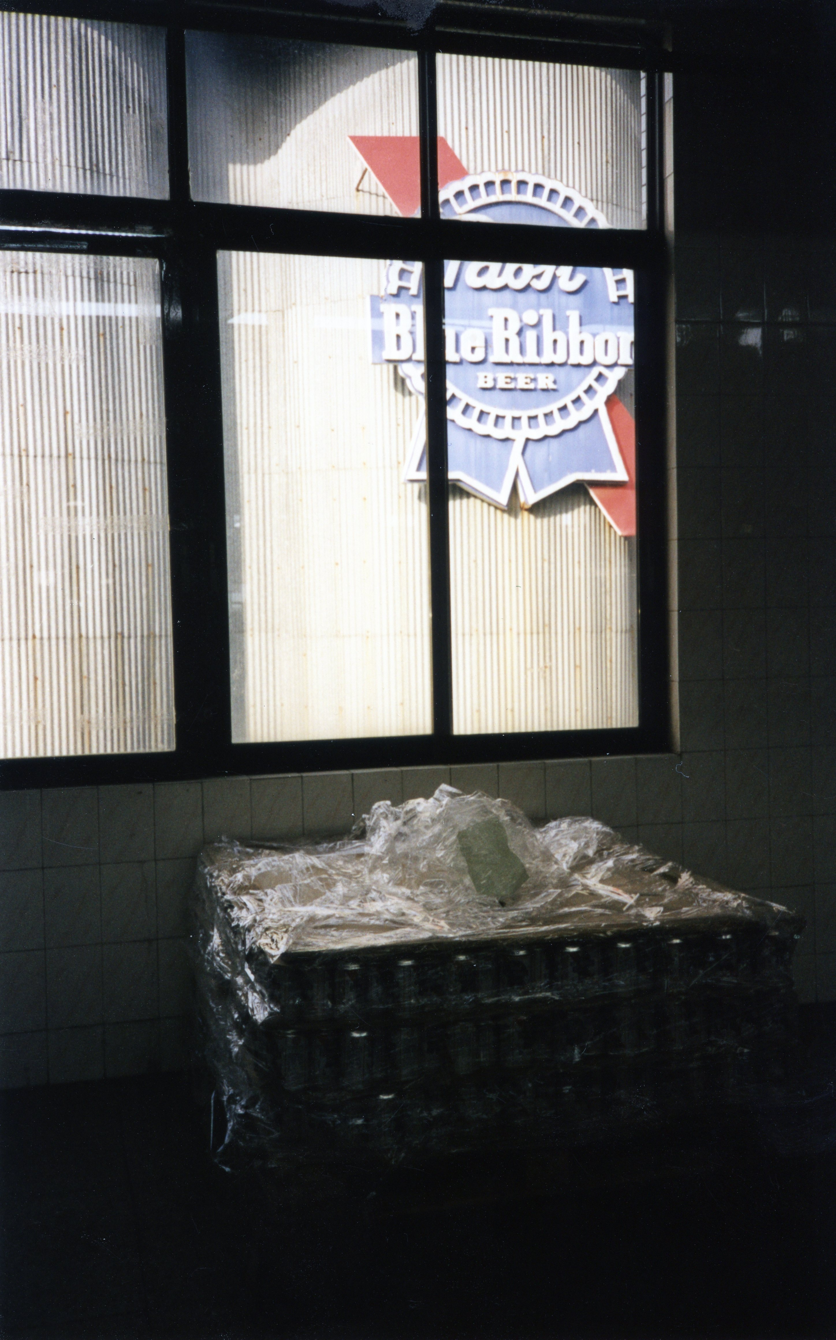 Zhaoqing Brewery in Zhaoqing Guangdong China picture of Pabst logo from inside brewery